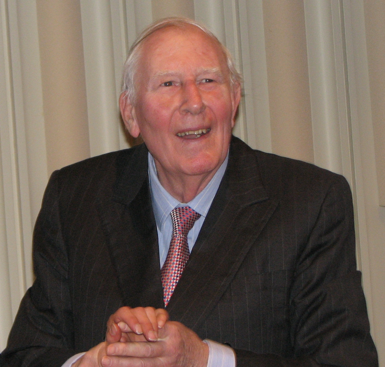 Sir Roger Bannister at the prize presentation of the 2009 Teddy Hall relay race.